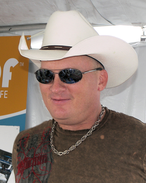 Kevin Fowler, acting as spokesman for the The Texas water safety campaign Nobody's Waterproof, at the Texas Parks and Wildlife Expo 2007, Austin, Texas, United States.